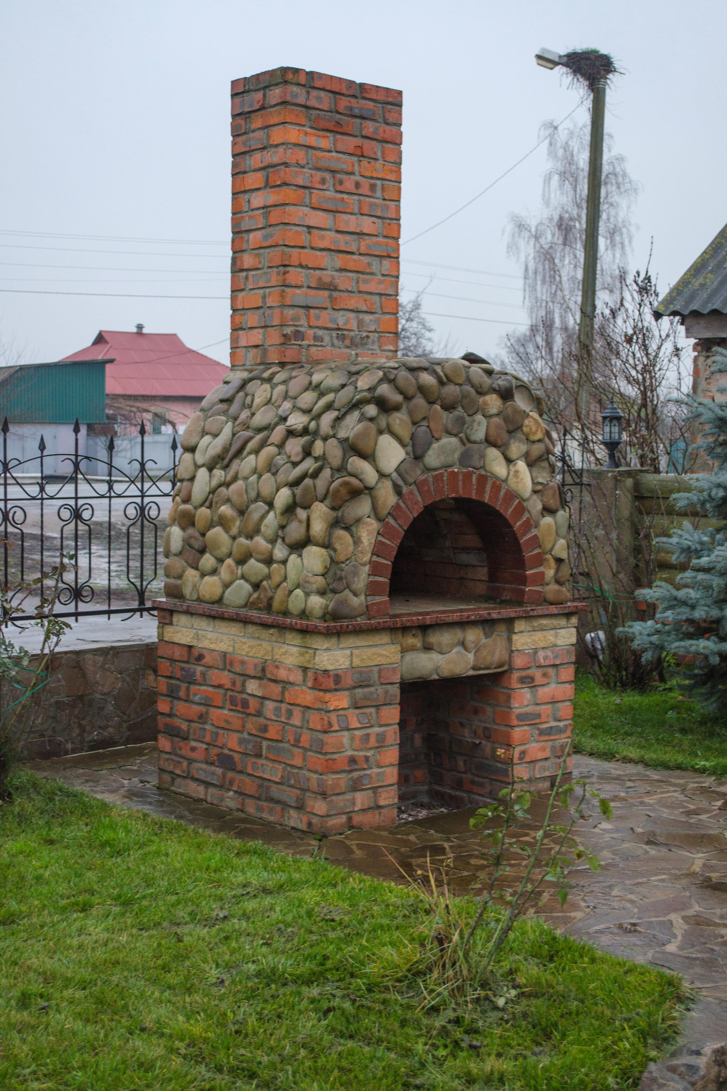 v.Ivanivka, Chernihiv Raion, Chernihiv Oblast, Ukraine